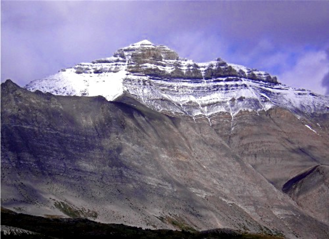 Nigel Peak in Canadian Rockies